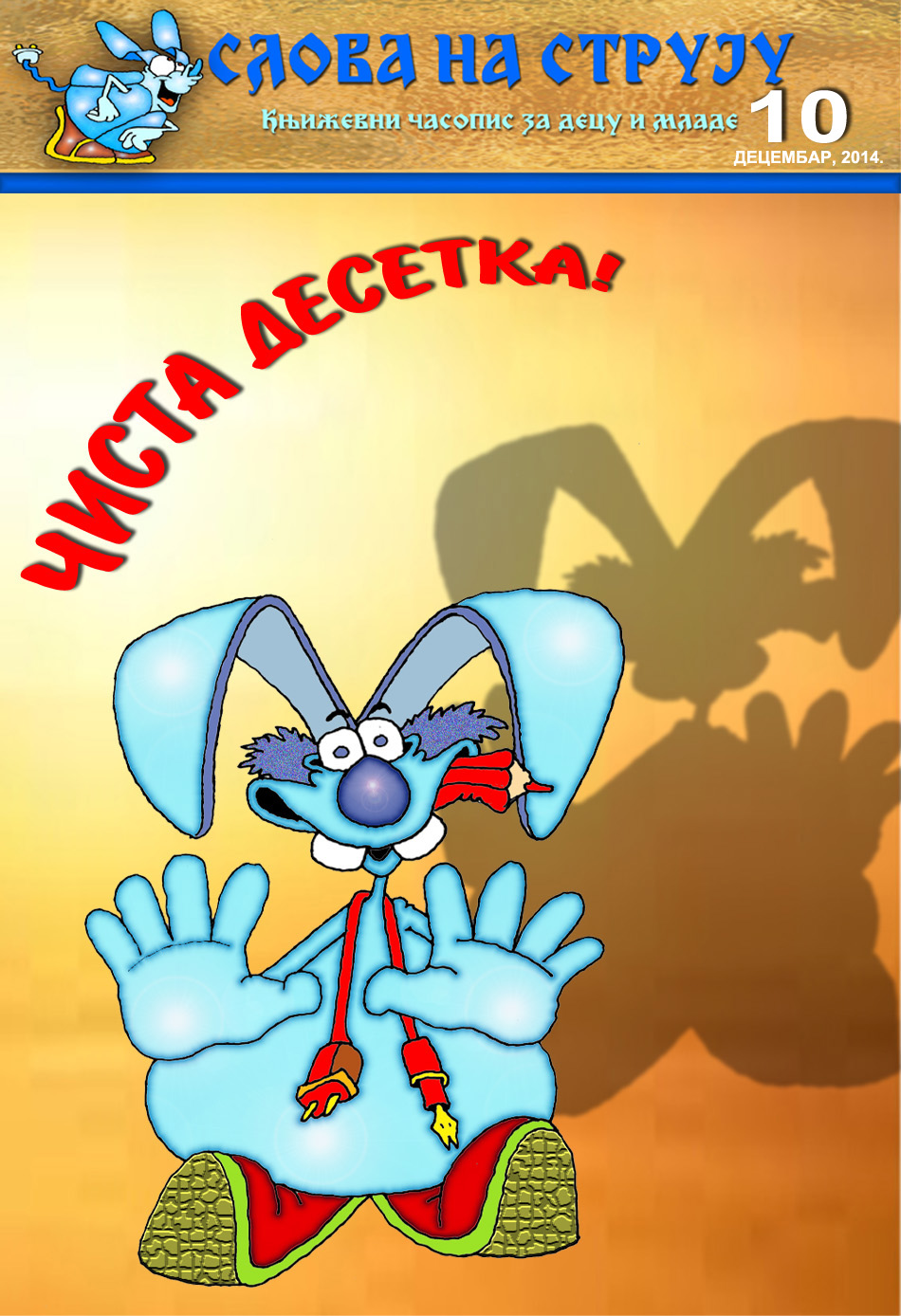 Front page Slova na struju, children magazine, publish by Public Library Radislav Nikčević Jagodina, Serbia, illustrator by Peđa Trajković